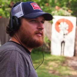 Photo of Bryan Poyser